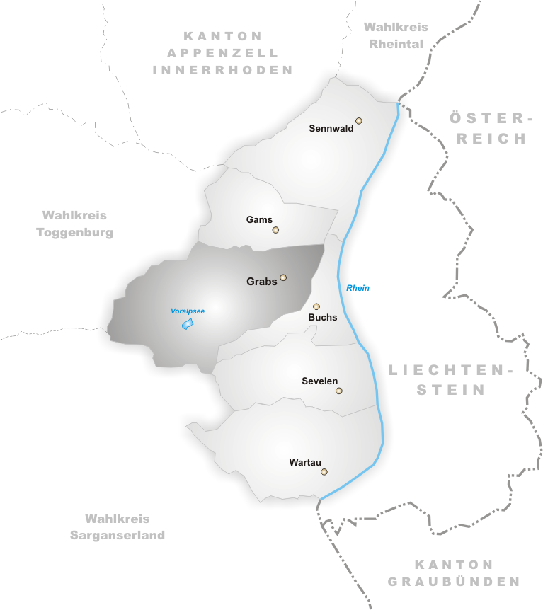 Municipality Grabs